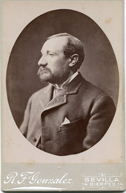 Portrait Henry Doetsch